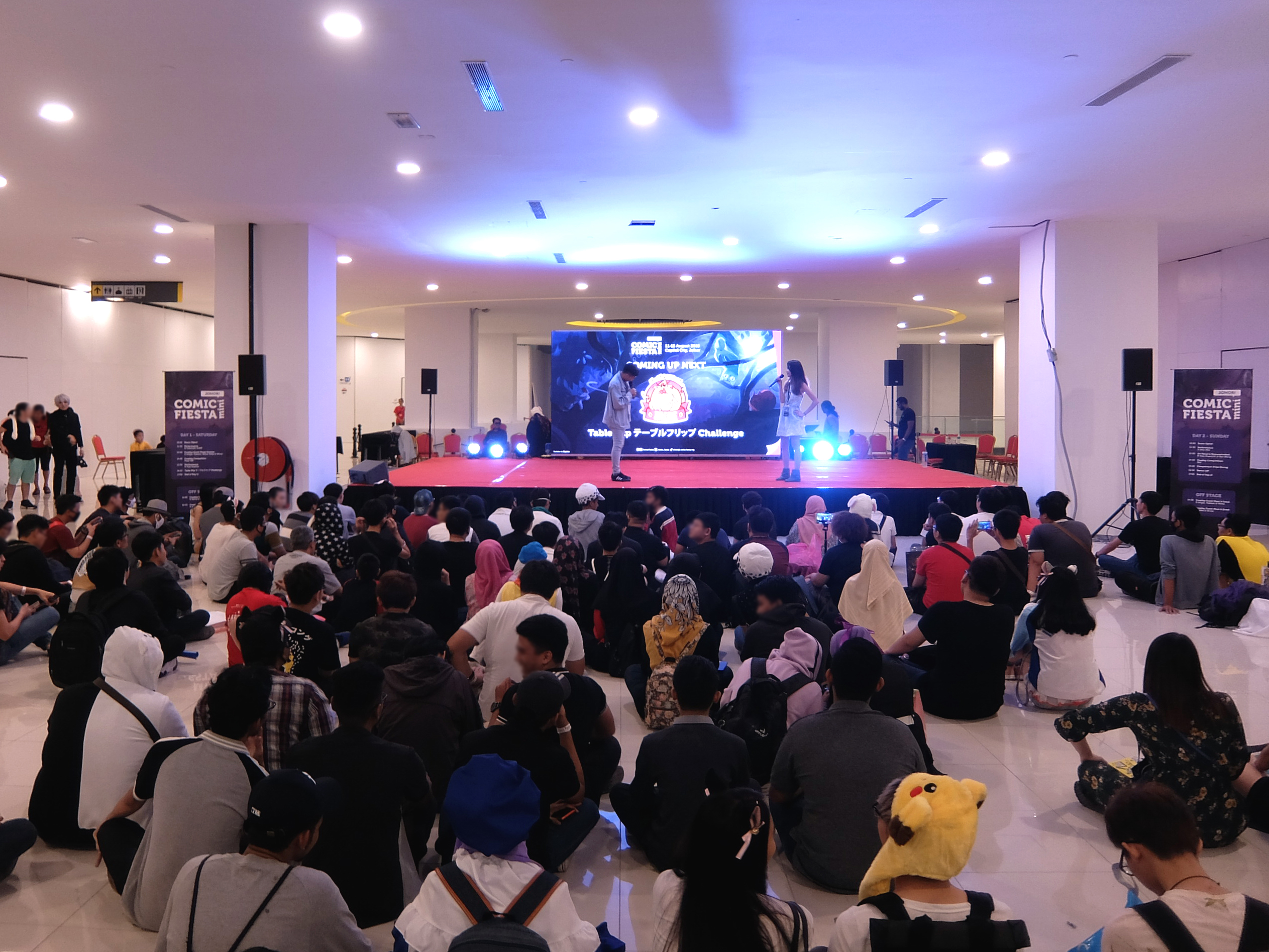 Comic Fiesta Mini Johor 2018 @ Capital City Mall, Tampoi, Johor Bahru, Johor, Malaysia